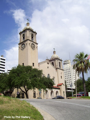 The Corpus Christi cathedral on Upper Broadway in downtown Corpus Christi, TX.